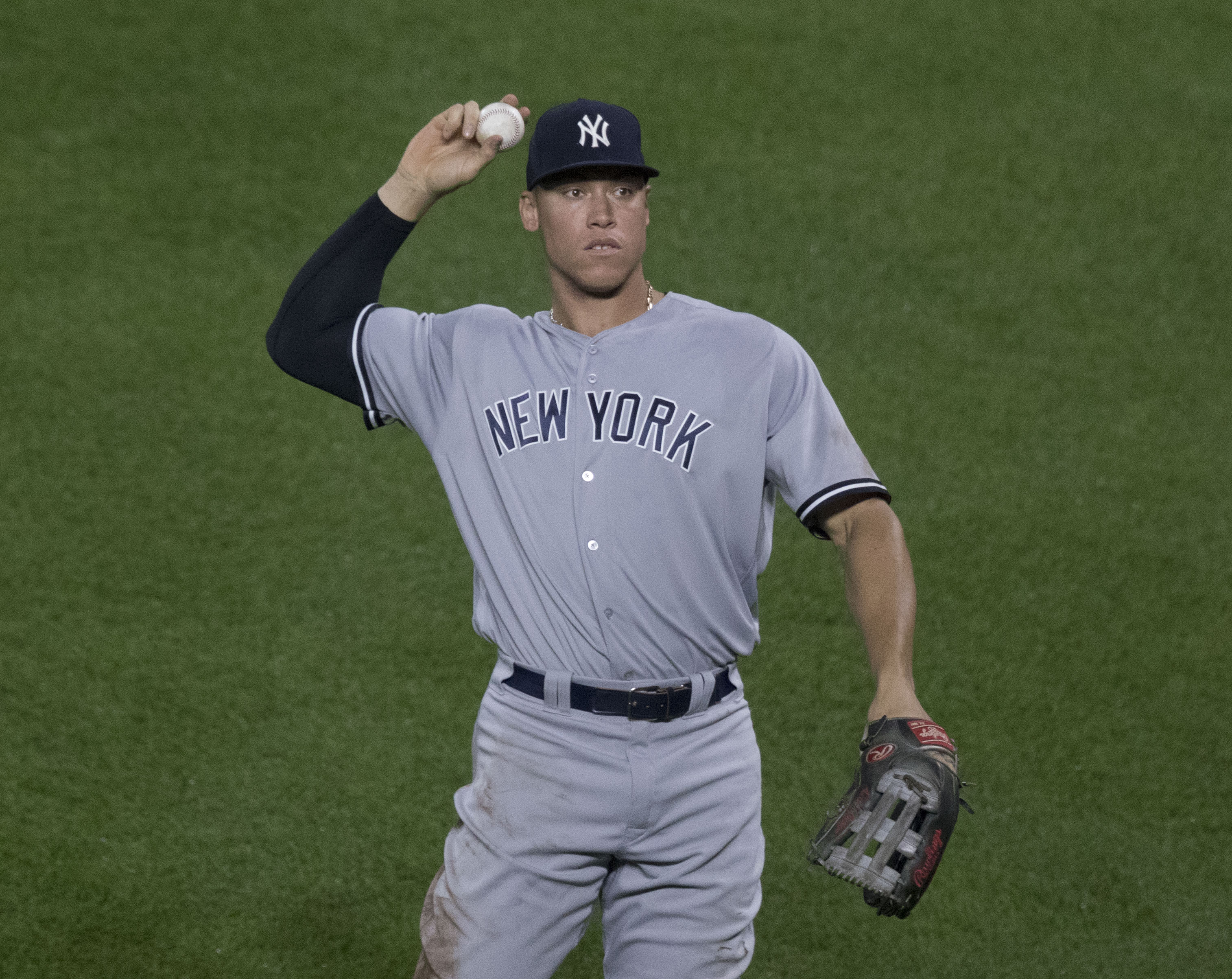 Aaron Judge throwing a baseball at Oriole Park at Camden Yards.